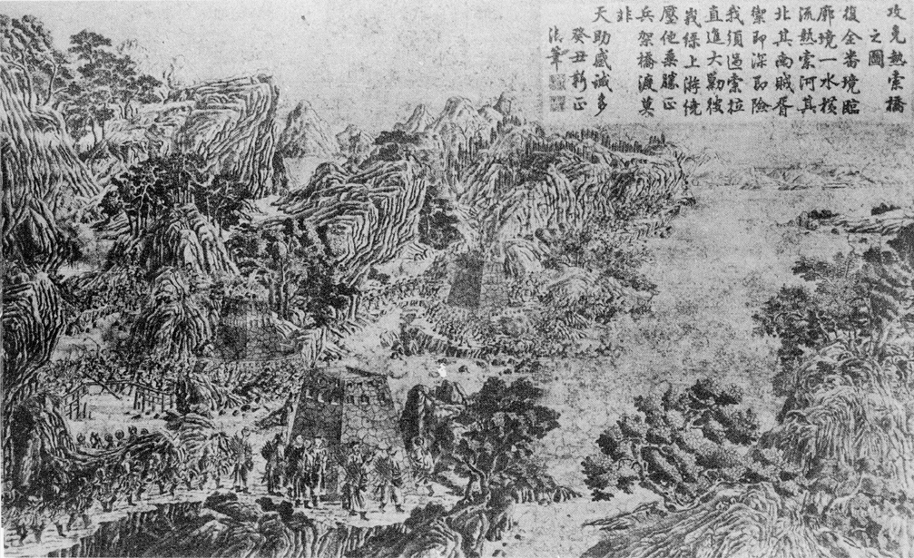 A scene of the Gurkha Campaign (Nepal) 1792 - 1793